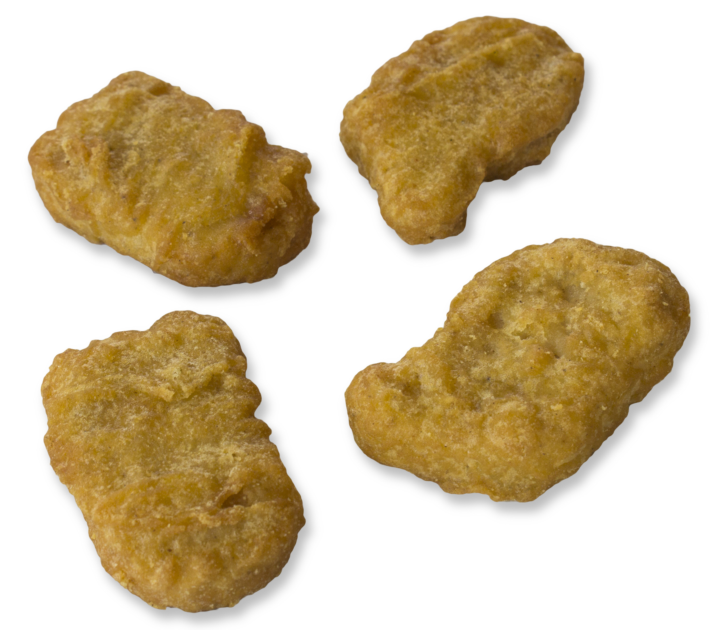 Chicken McNuggets bought at a McDonald's in Yogyakarta